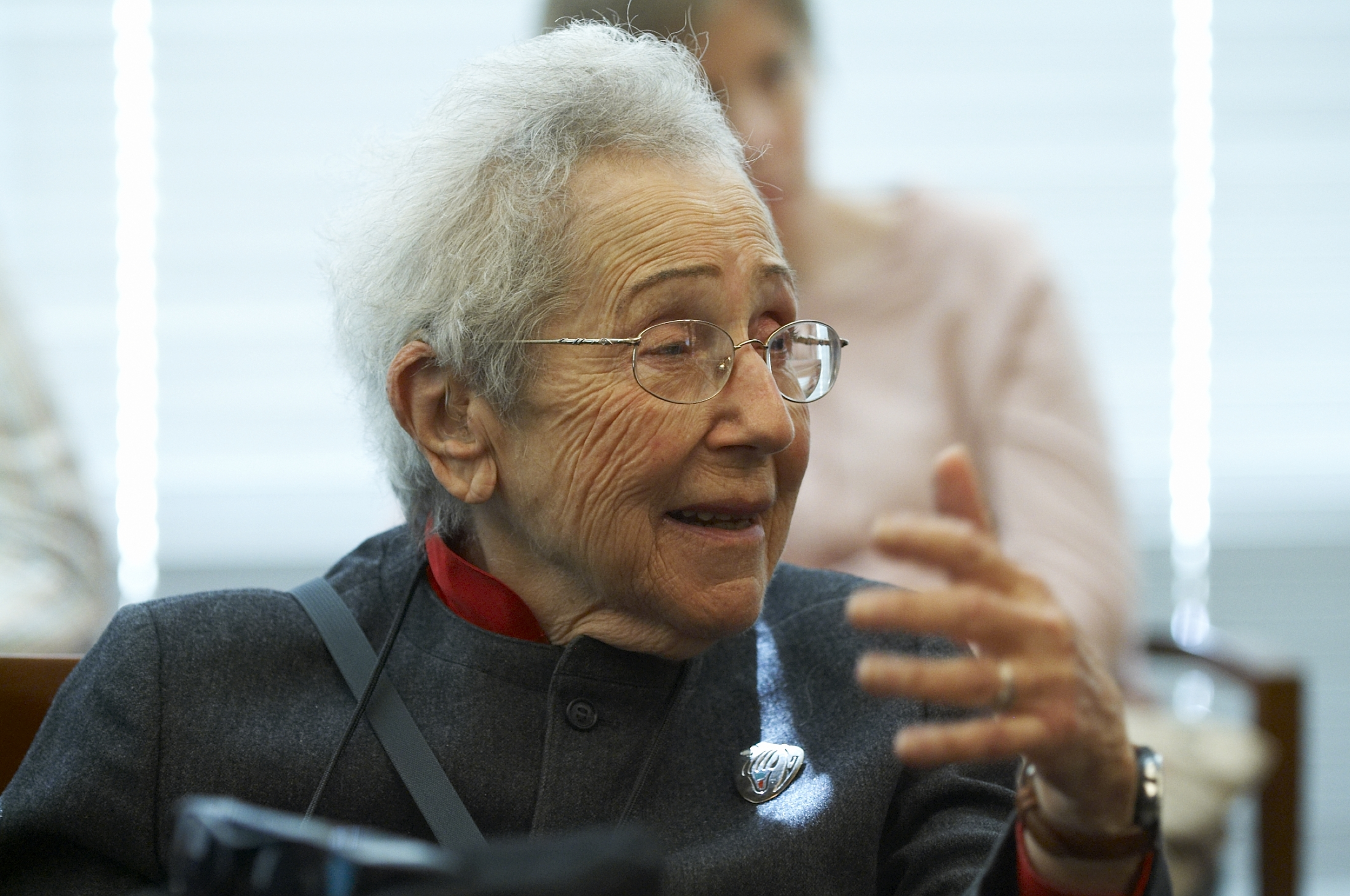 Photograph of chemist Mildred Cohn attending the Chemical Heritage Foundation Brown Bag Lecture, 2005-10-19, Chemical Heritage Foundation, Philadelphia, PA, USA.